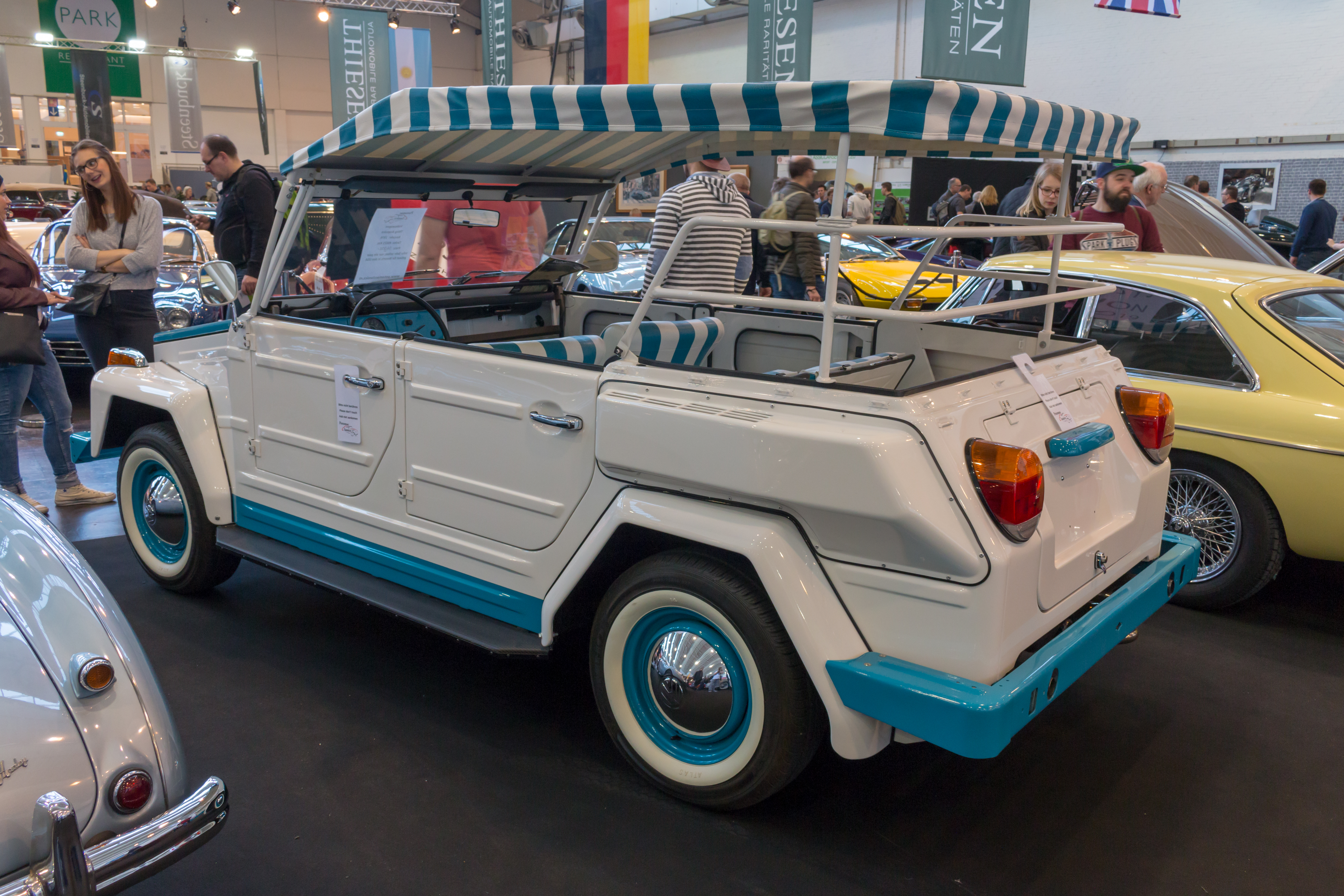 VW type 181 at Techno Classica 2018, Essen